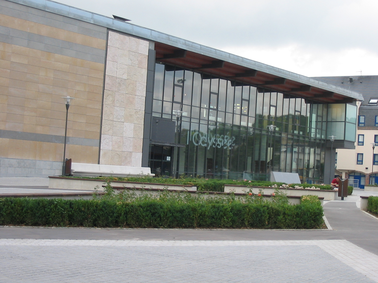 The Odyssey cultural centre at Dreux